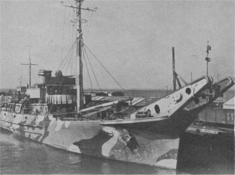 Wooden Net Tender USS TEREBINTH (AN-59)